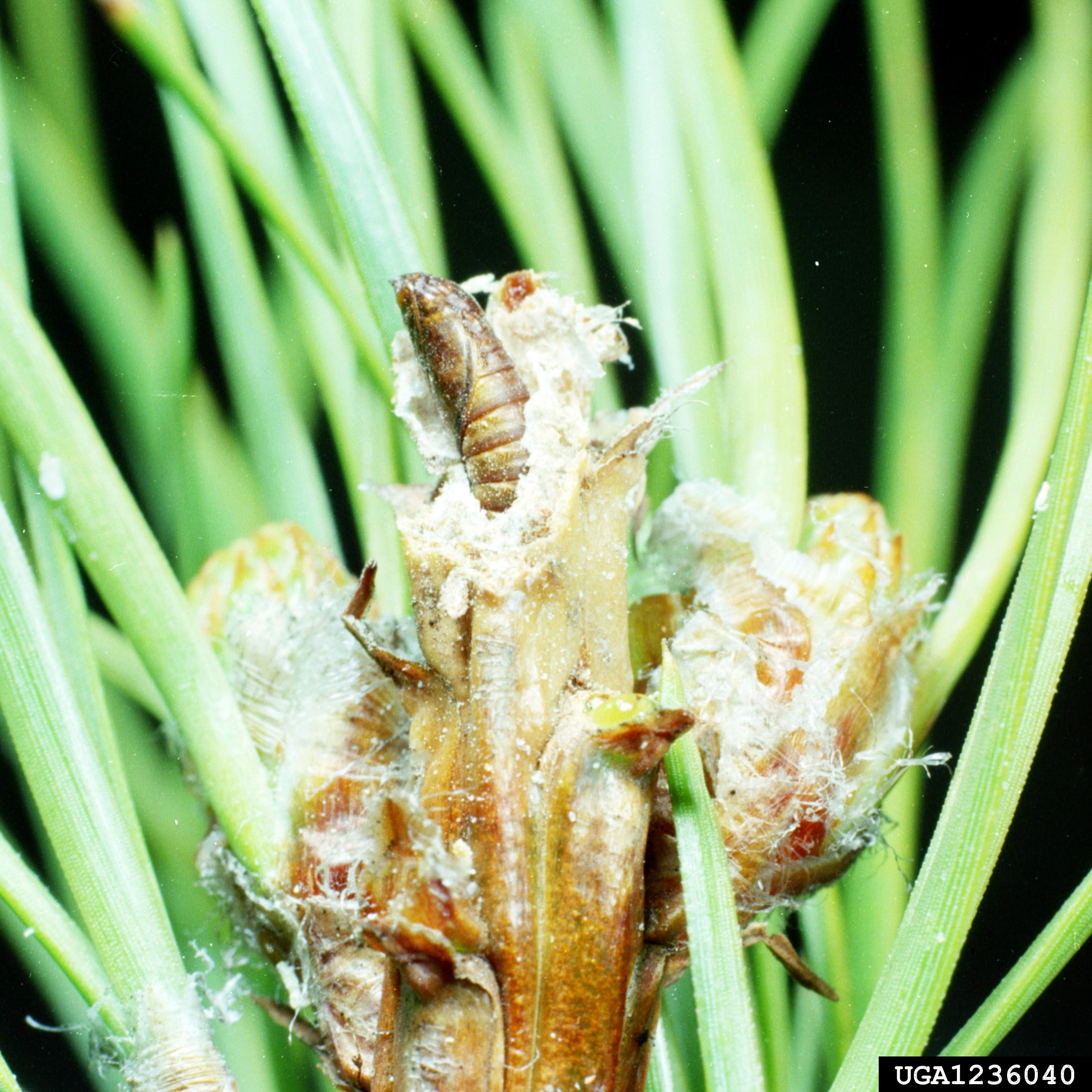 Rhyacionia_frustrana_pupa